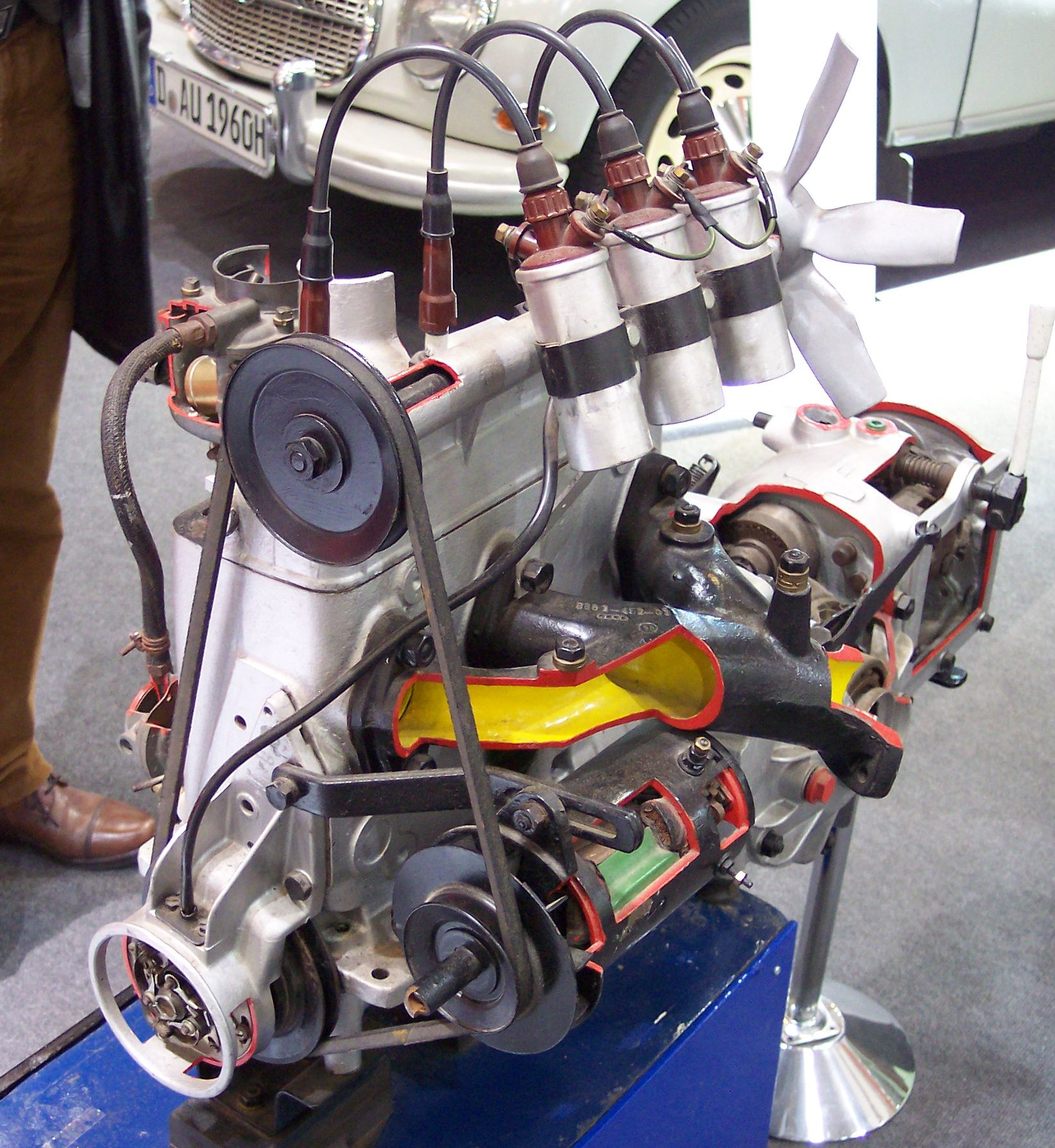 DKW 3=6 engine cutaway